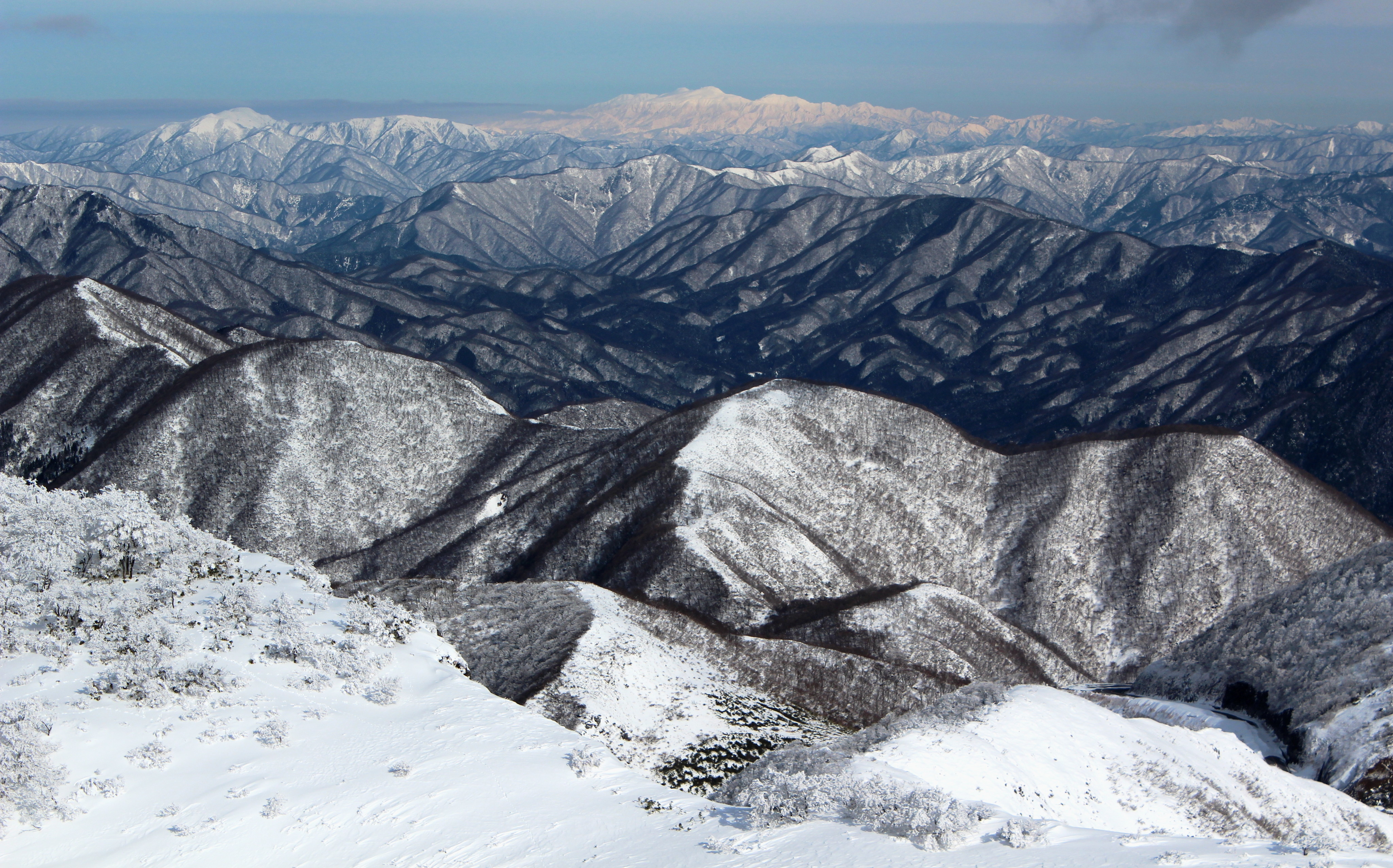 Mount Haku and Odu three Mountains(Mount Odugongen, Mount Hanabusa and Mount Kaminarikura) seen from Mount Ibuki in Japan.